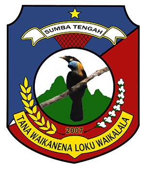 Seal of Central Sumba